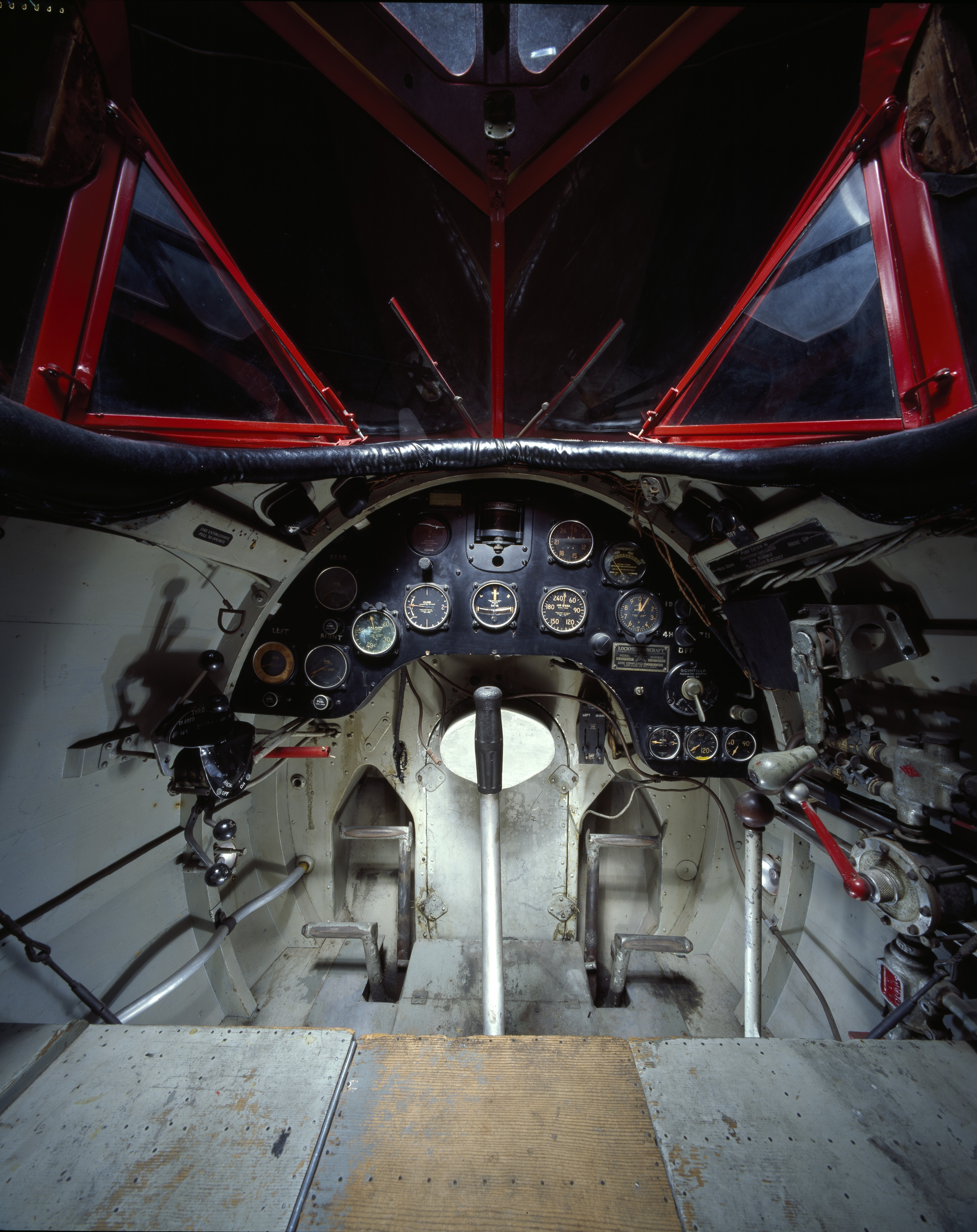 Cockpit of Amelia Earhart's Lockheed Model 5B Vega (r/n NR7952) [Lockheed Vega 5B, Amelia Earhart, A19670093000]; Smithsonian National Air and Space Museum (NASM), Washington, D.C., August 23, 2006. Photo by Eric Long and Mark Avino. [NASM 2006-21920]